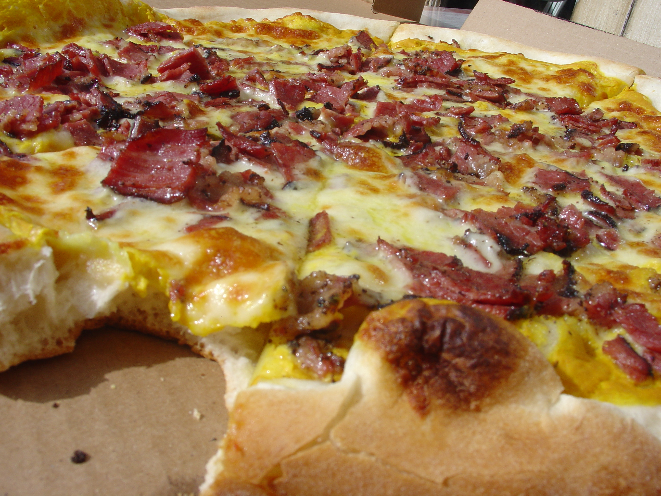 Pastrami pizza from Paisano's in Hermosa Beach. Includes pastrami and mustard. California 2009.